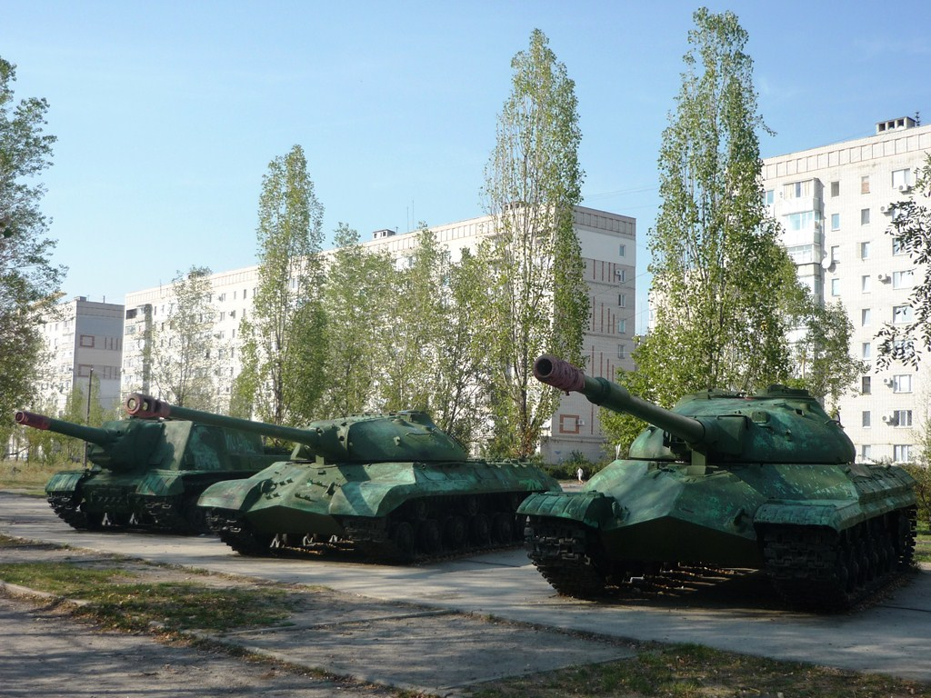 Komsomolsk, Poltava Region, Ukraine